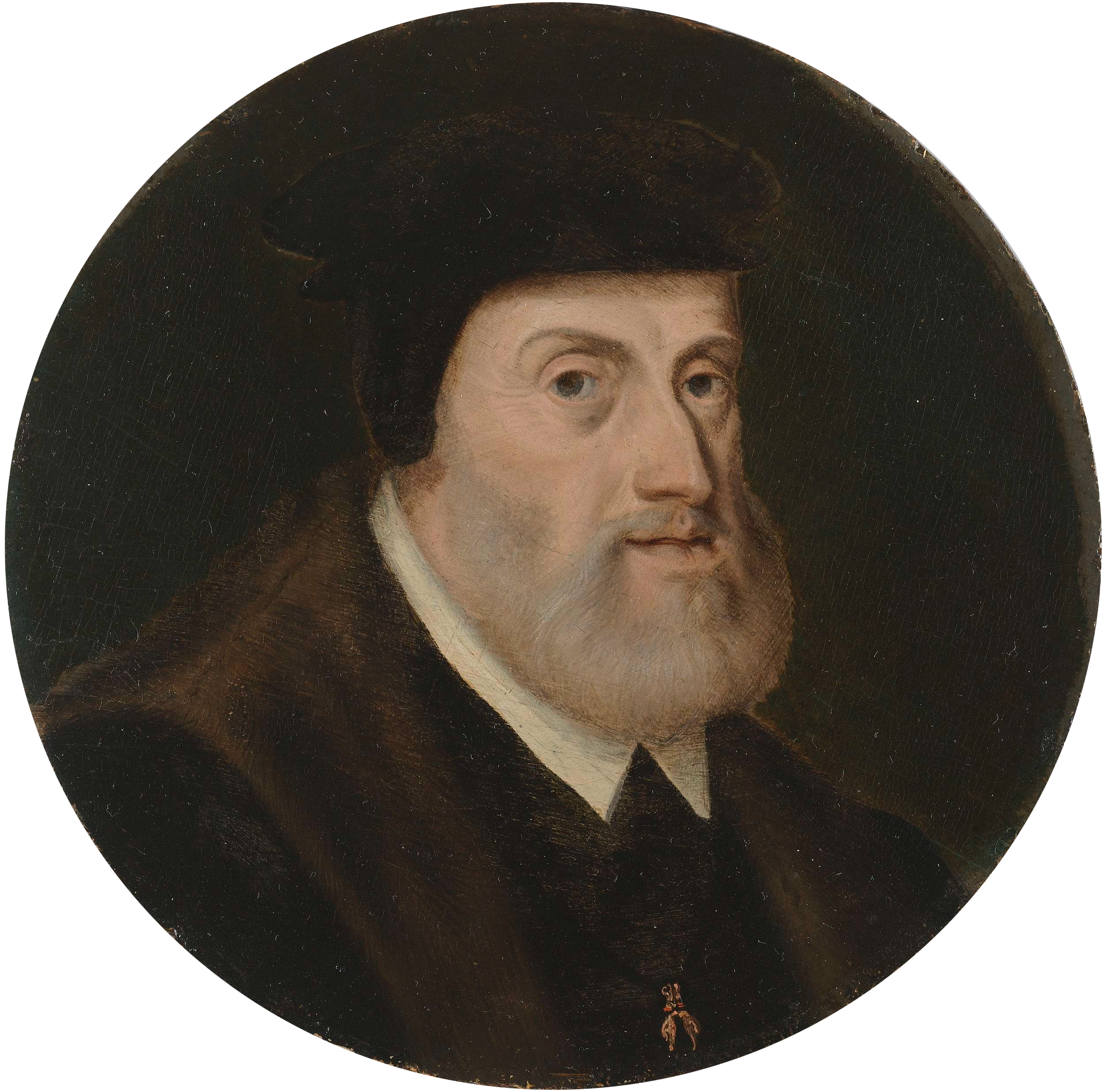 This portrait of Emperor Charles V was painted by an artist in the circle of Jan Cornelisz. Vermeyen. Charles V (1500-1559) became the ruler of Habsburg Netherlands in 1515.